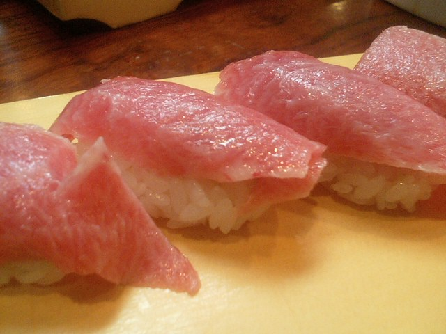 Pieces of tuna Nigirizushi (hand-formed sushi).